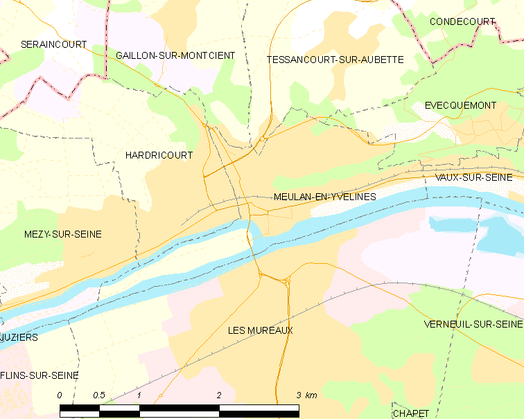 Map of French municipality Meulan